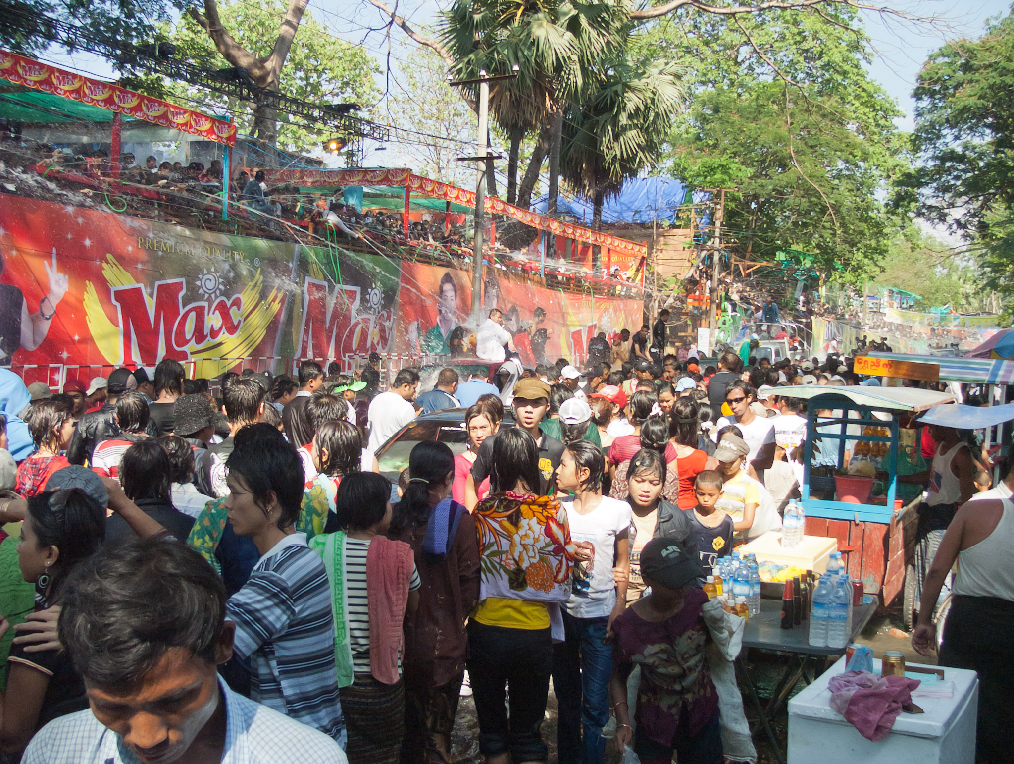 Main Thingyan celebration in Yangon, Myanmar